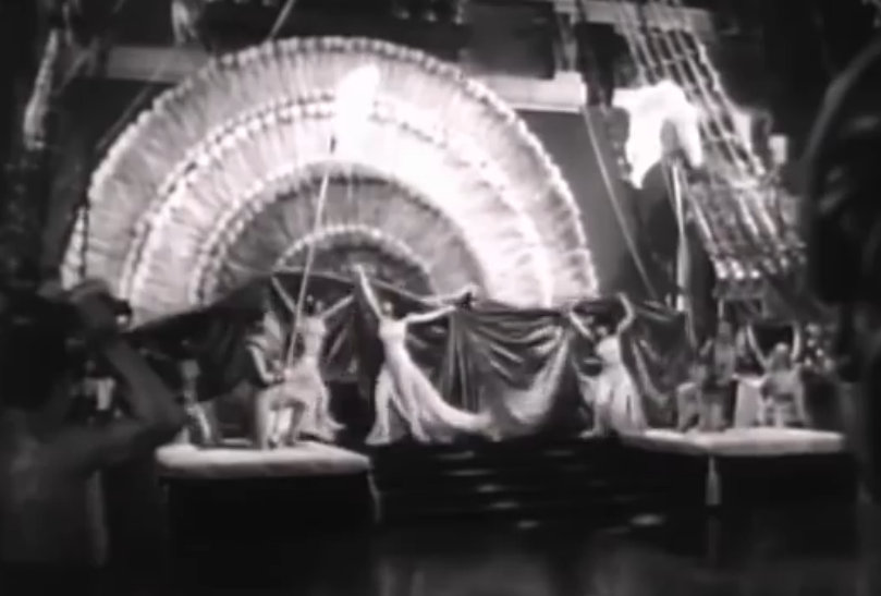 Trailer screenshot, from Cleopatra, Paramount Pictures